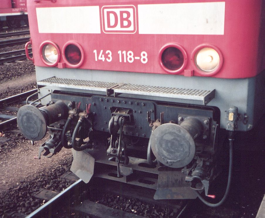 Railway coupler on a german class 143